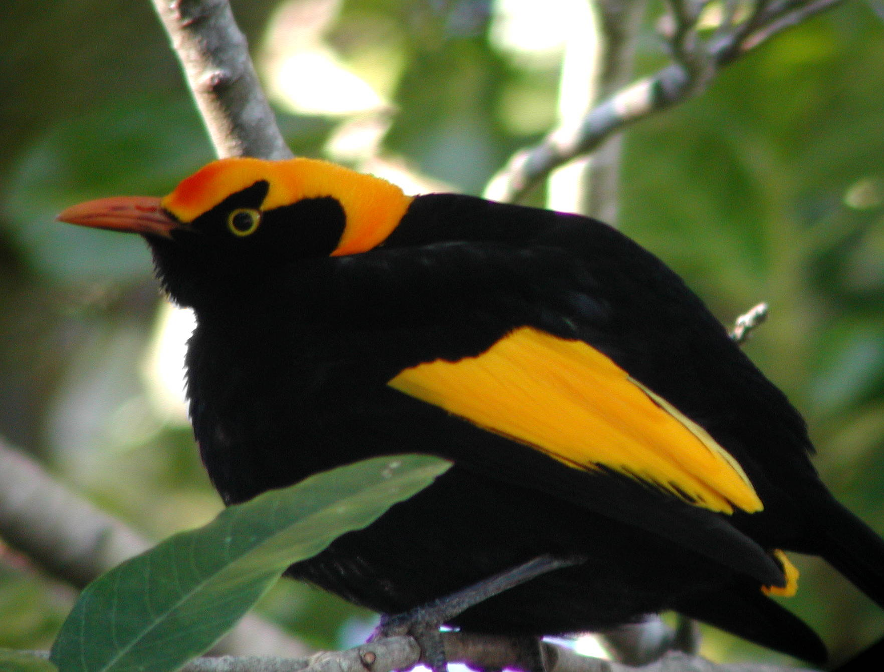 Regent Bowerbird Sericulus chrysocephalus Lamington NP, SE Queensland, Australia